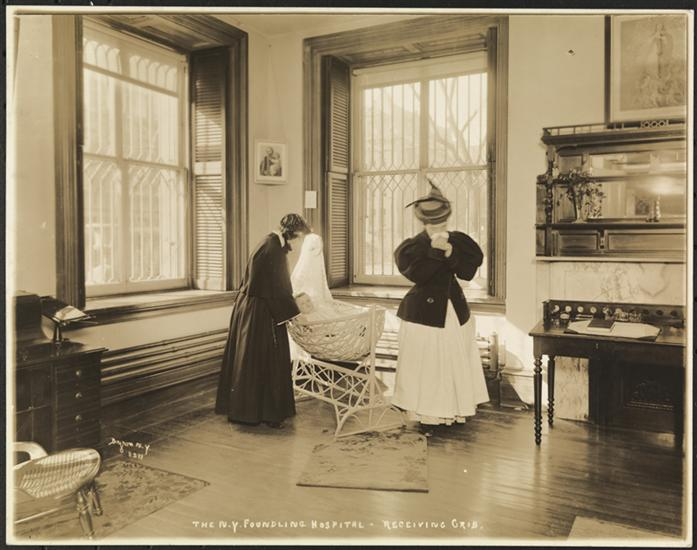 Receiving crib at the New York Foundling Hospital, an orphanage operated by the Sisters of Charity. For decades after its founding in 1869, parents were permitted to leave infants in this white crib, with no questions asked; the sisters would then raise and educate the child. Photo by Byron Company, circa 1899.